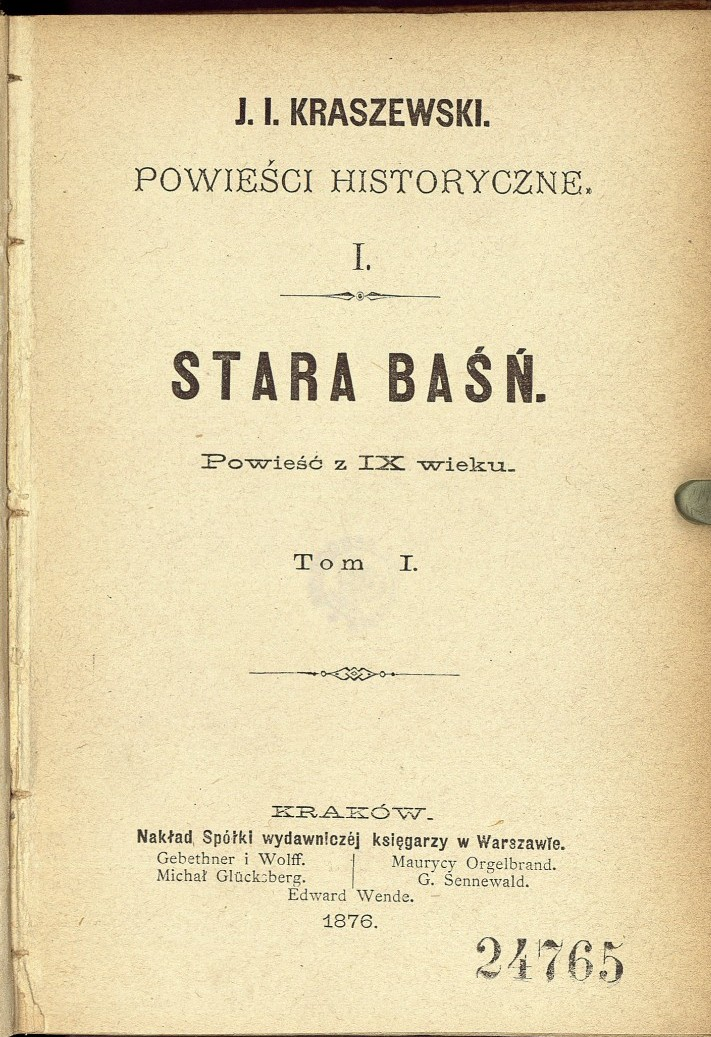 novel